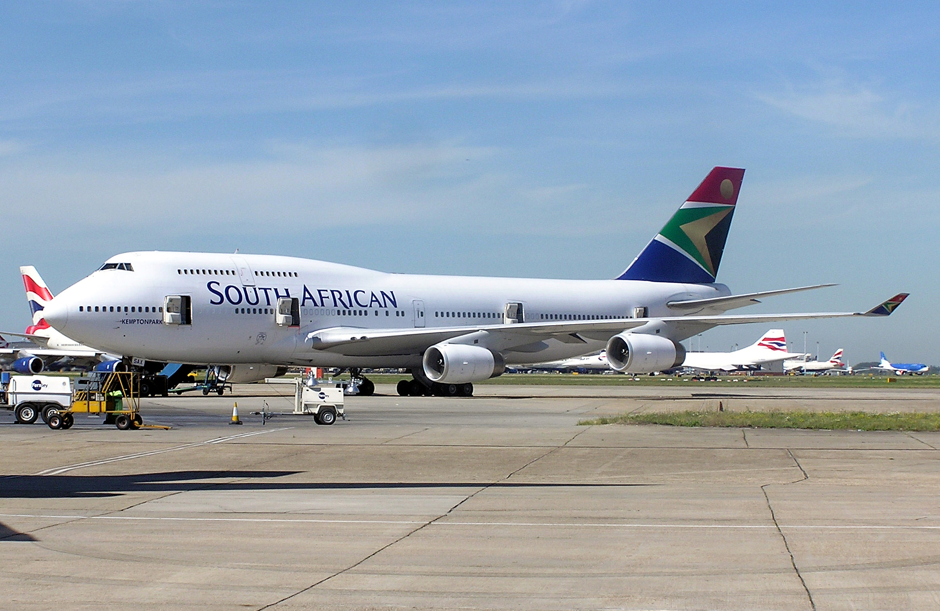 South African Boeing 747-400 (registration ZS-SAX) parked at London Heathrow Airport, England. The Concorde in the background is kept by British Airways at Heathrow, following the dispersal of all Concordes to museums.